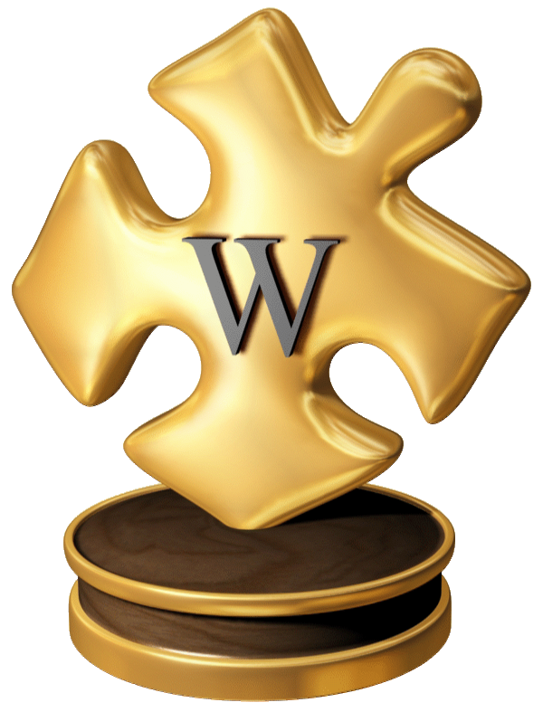 Wikipedia puzzle piece trophy golden variation